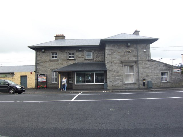 Longford Railway Station, near to An Longfort, Longford, Ireland. Built originally by the Midland Great Western Railway, it is situated between mileposts 76 and 77 on the line from Dublin to Sligo.